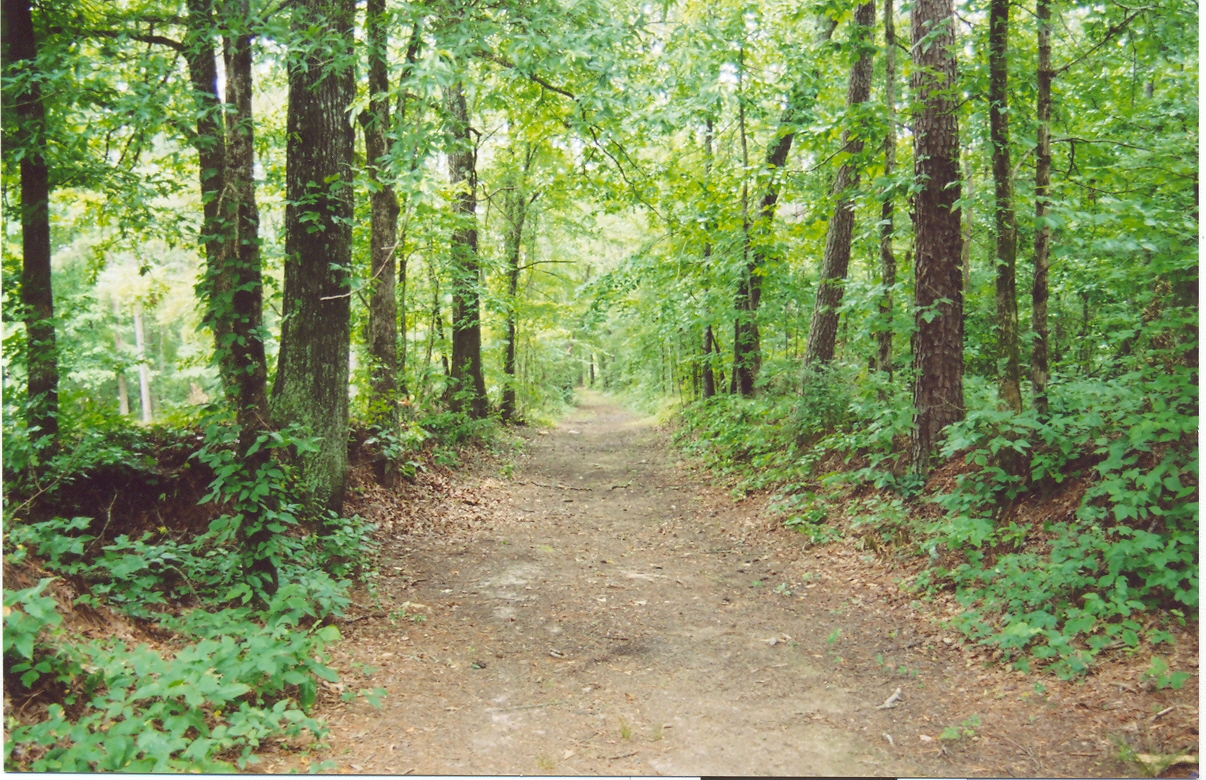 Part of the Old Trace Photo by Jan Kronsell, 2002